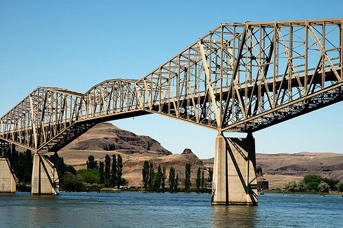 The Snake River Bridge, Lyons Ferry, Washington, USA, oldest extant steel cantilever bridge in Washington.